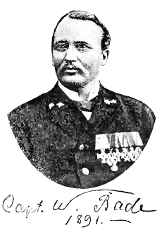 Capt. Wilhelm Bade (1843-1903), pioneer of polar tourism